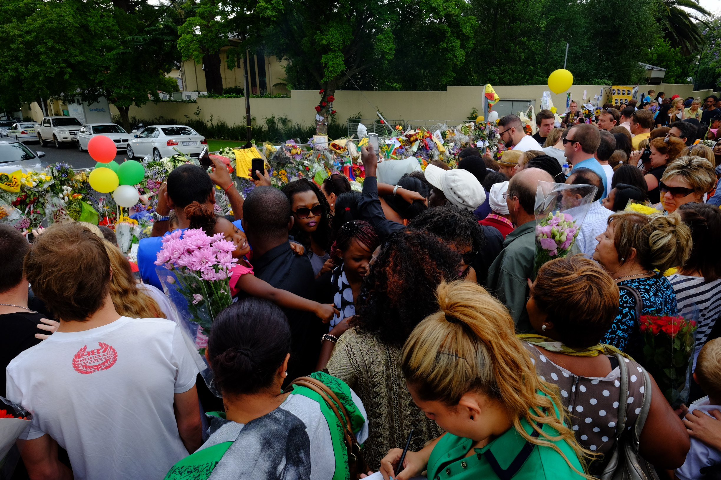 Madiba's House 009 – Taken by Rob Dennison at Nelson Mandela's house in Houghton, Johannesburg, South Africa